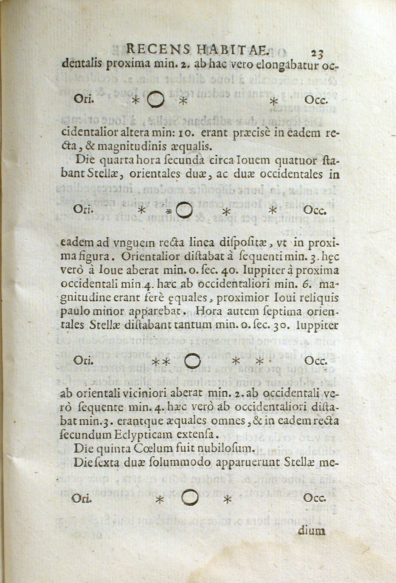 Galileo's drawings of Jupiter and its Medicean Stars from Sidereus Nuncius. Image courtesy of the History of Science Collections, University of Oklahoma Libraries.